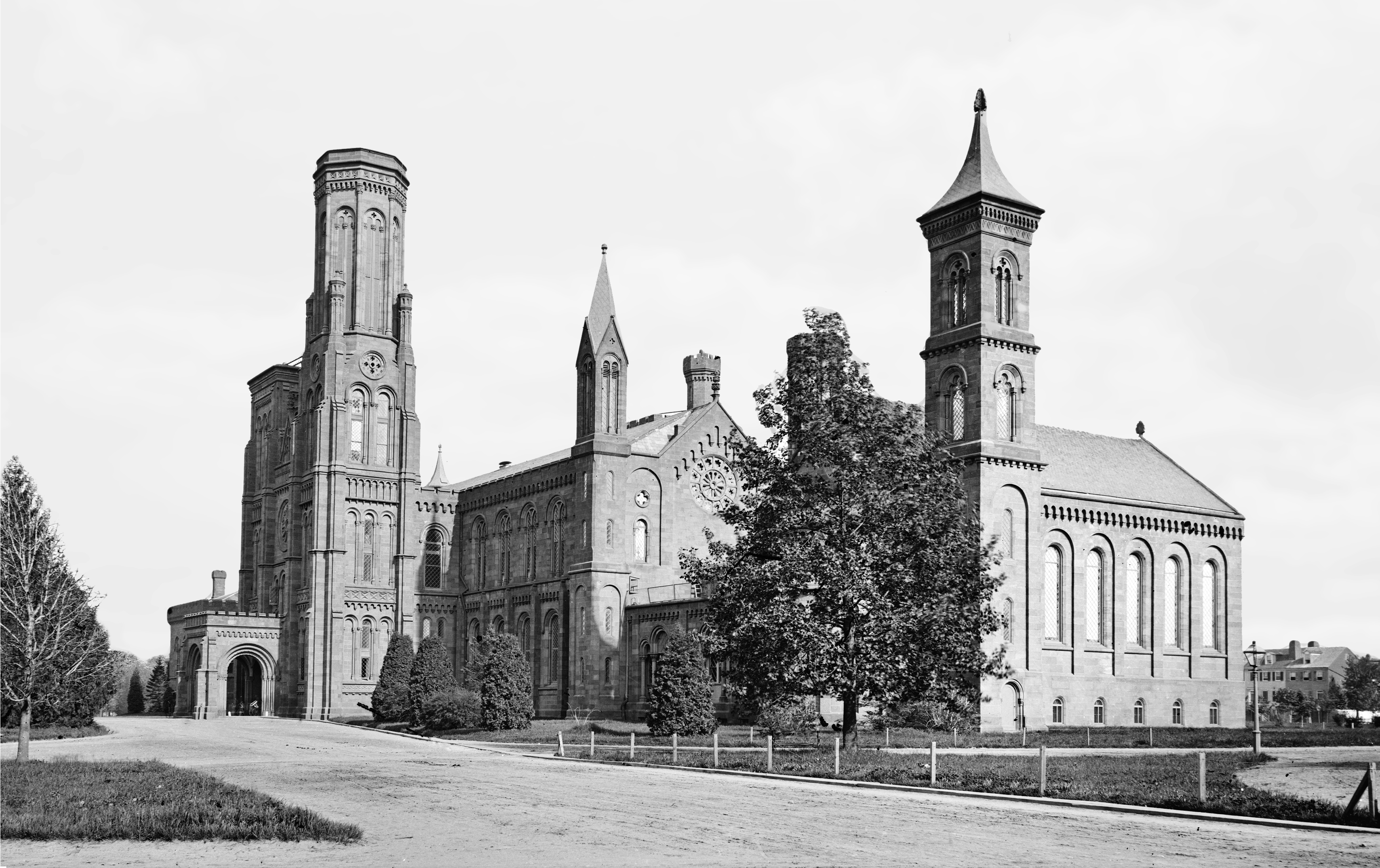 Smithsonian Institution "Castle" (Restored image from glass negative)